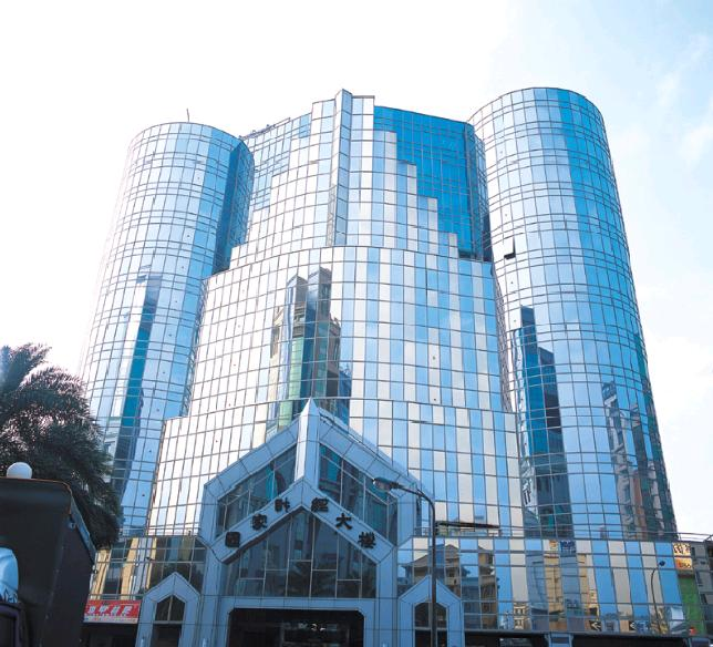 building in which is set Dimerco's headquarter